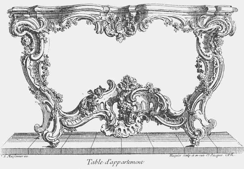 Table designed by J. A. Meissonnier